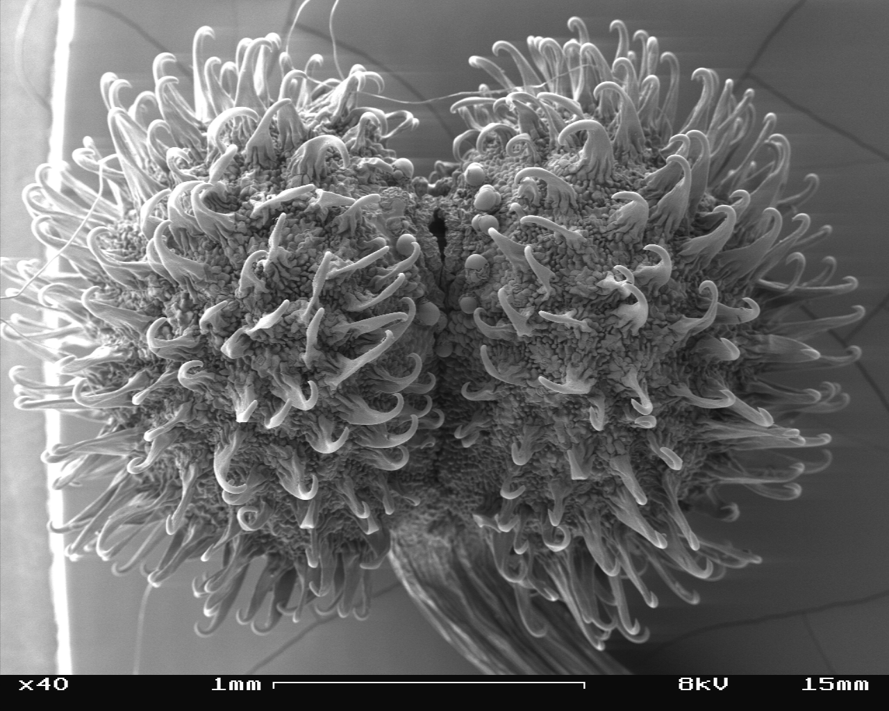 Burdock in Scanning Electron Microscope, magnification 40x